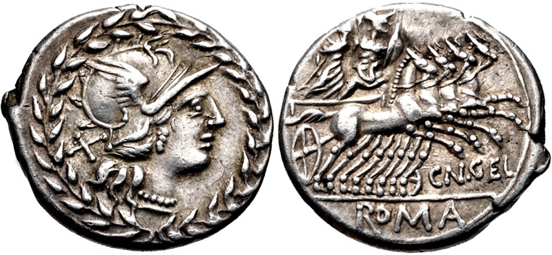 Cn. Gellius. 138 BC. AR Denarius (20mm, 3.89 g, 12h). Rome mint. Helmeted head of Roma right; X (mark of value) behind; all within laurel wreath / Mars driving galloping quadriga right, grasping Nerio beside him and holding shield. Crawford 232/1; Sydenham 434; Gellia 1. Good VF, toned, traces of deposits.